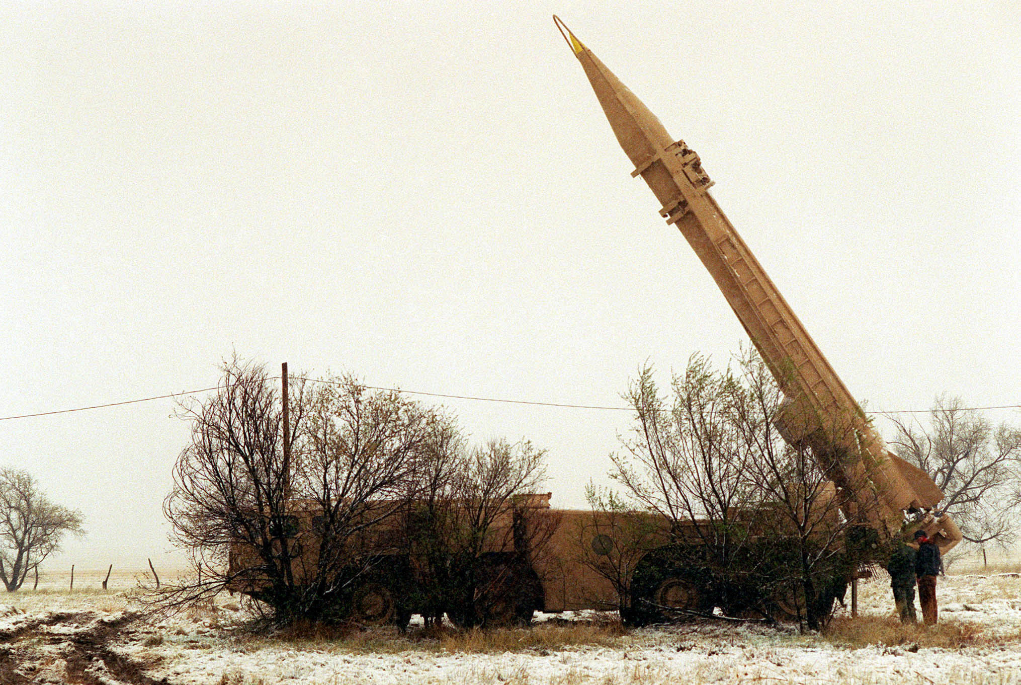 Opposing forces set up a SCUD missile site for Exercise Roving Sands '97. Members of the opposing forces provide a strong sense of reality for Exercise Roving Sands '97 participants as they set up a SCUD missile site at Roswell, N.M., on April 26, 1997. More than 20,000 service members from all branches of the armed forces of the U.S., Canada, Germany, and the Netherlands are participating in Exercise Roving Sands '97. The exercise is designed to refine their skills in operations using an integrated air defense network of ground, missile and radar early warning systems combined with tactical fighter and bomber aircraft operating in a simulated high-threat environment.